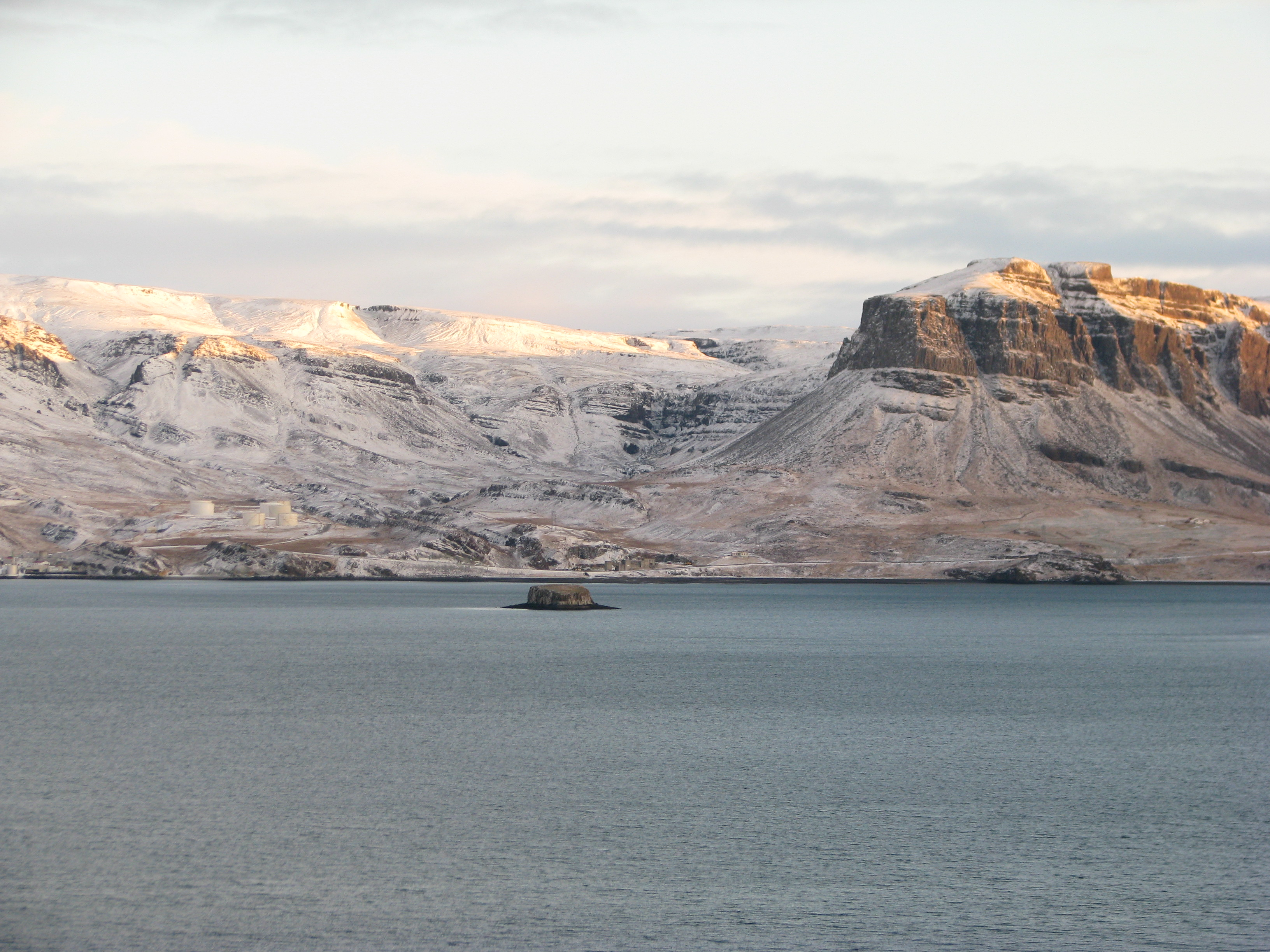 Geirshólur, a small island in Hvalfjördur, Iceland